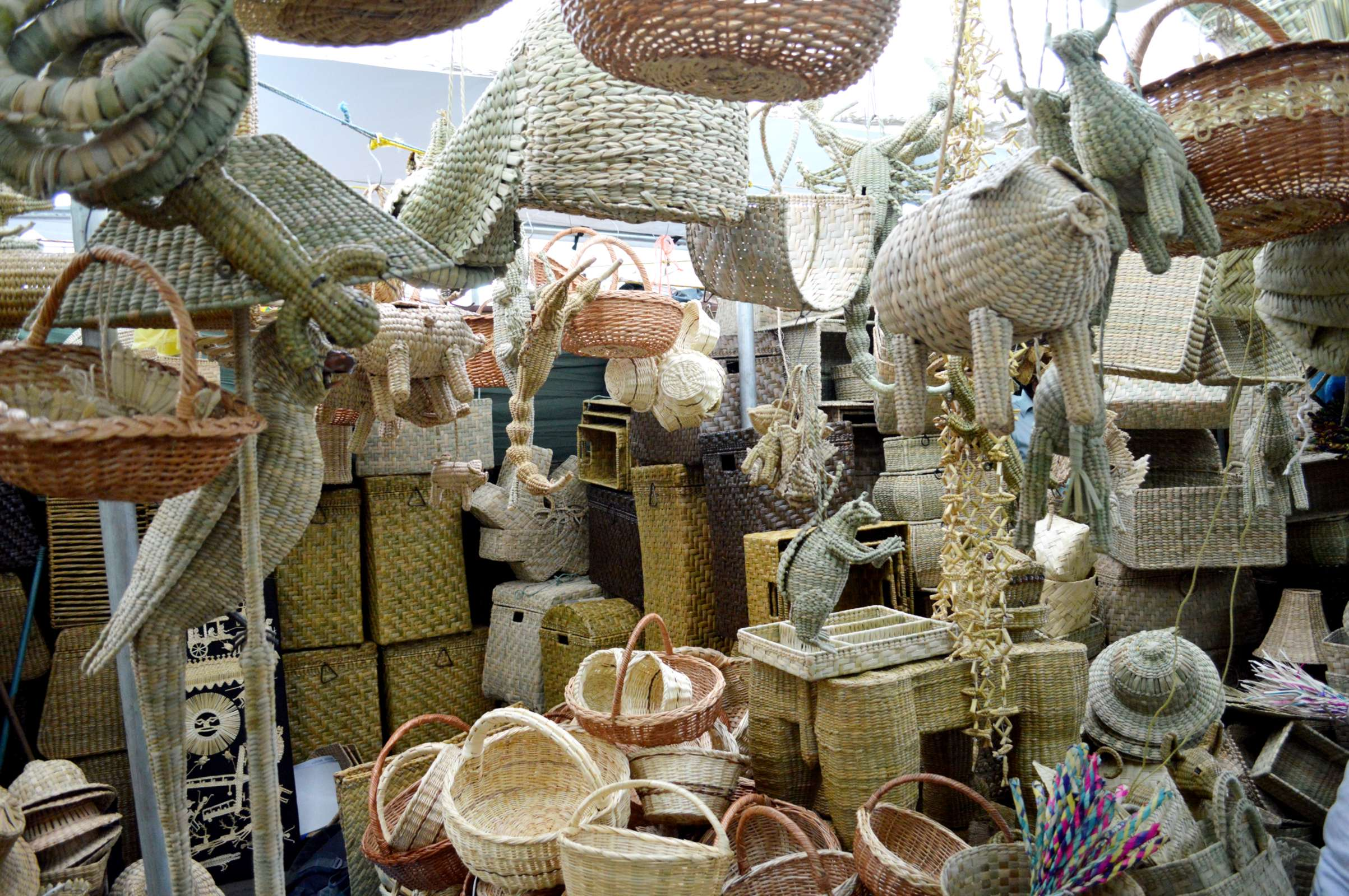 Basketry at the Tianguis de Domingo de Ramos in Uruapan, Michoacan, Mexico